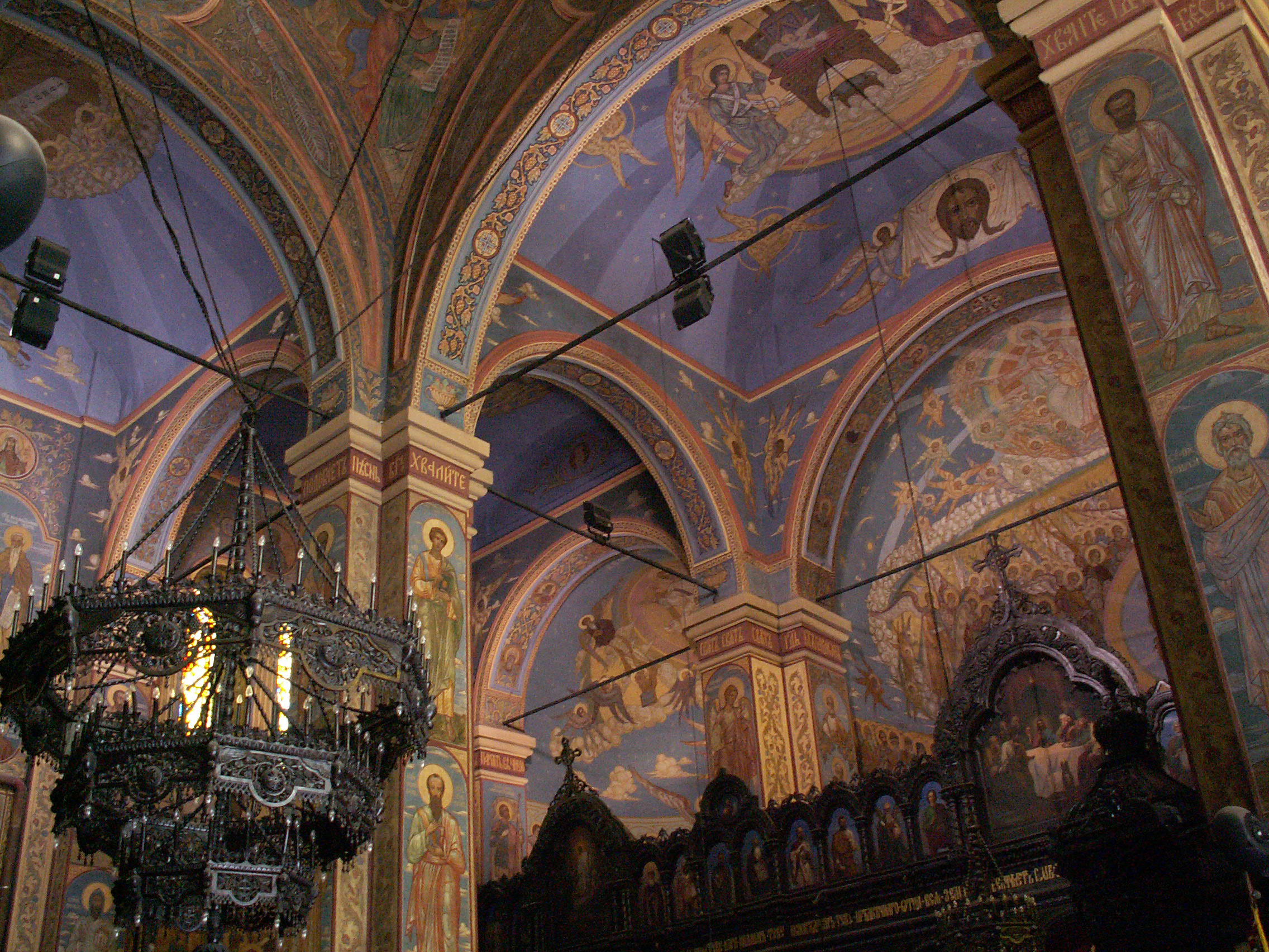 The Cathedral in Varna